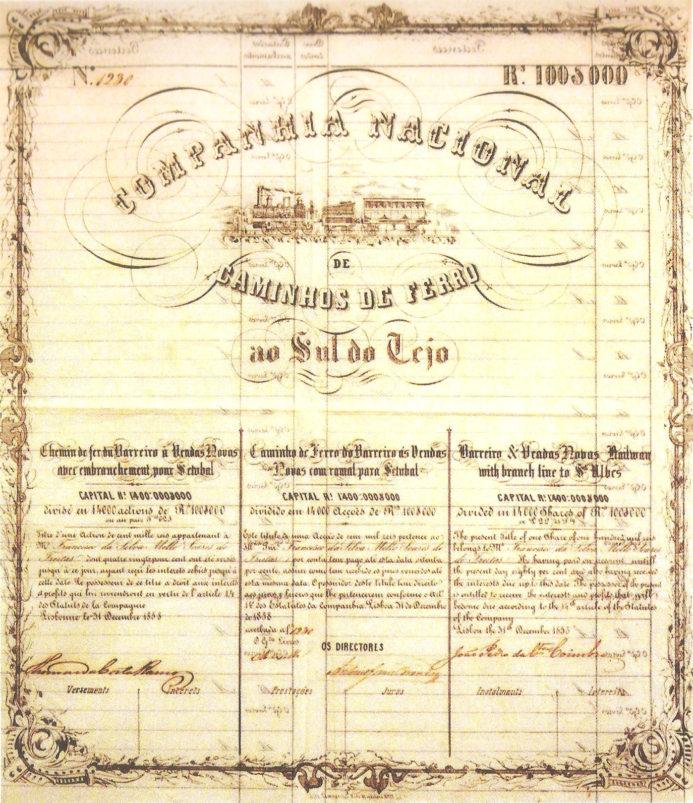 Stock certificate of the CNCFST - Companhia Nacional de Caminhos de Ferro ao Sul do Tejo (Southern Tagus Railways National Company), who built the railway between Barreiro and Vendas Novas, with a branch to Setúbal, in Portugal.